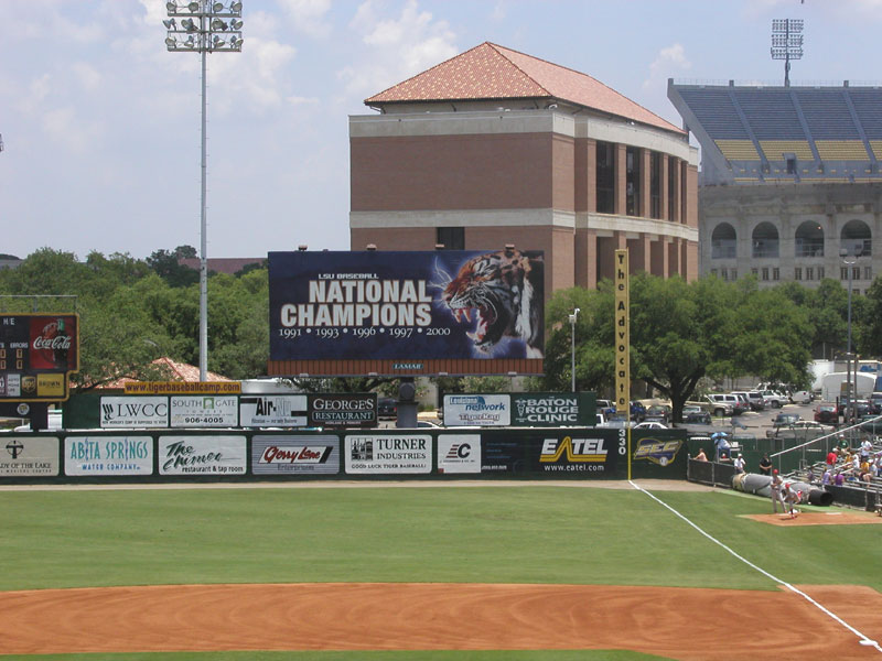 "The Intimidator" located behind the right field fence at Alex Box Stadium in Baton Rouge, Louisiana. The photographer is the uploader (Wikipedia account name: seancp) The photograph was taken on June 3rd, 2005 before an NCAA Tournament regional game between LSU and Marist.